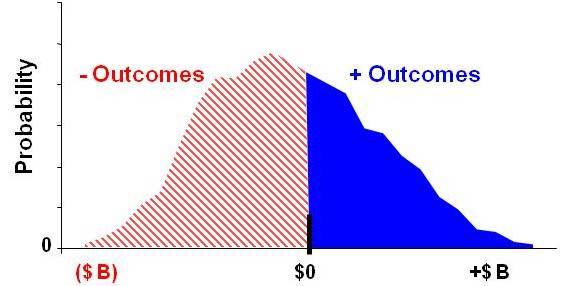 Datar Mathews Real Option Method Wikipedia Fig 2B Rational Decision Distribution